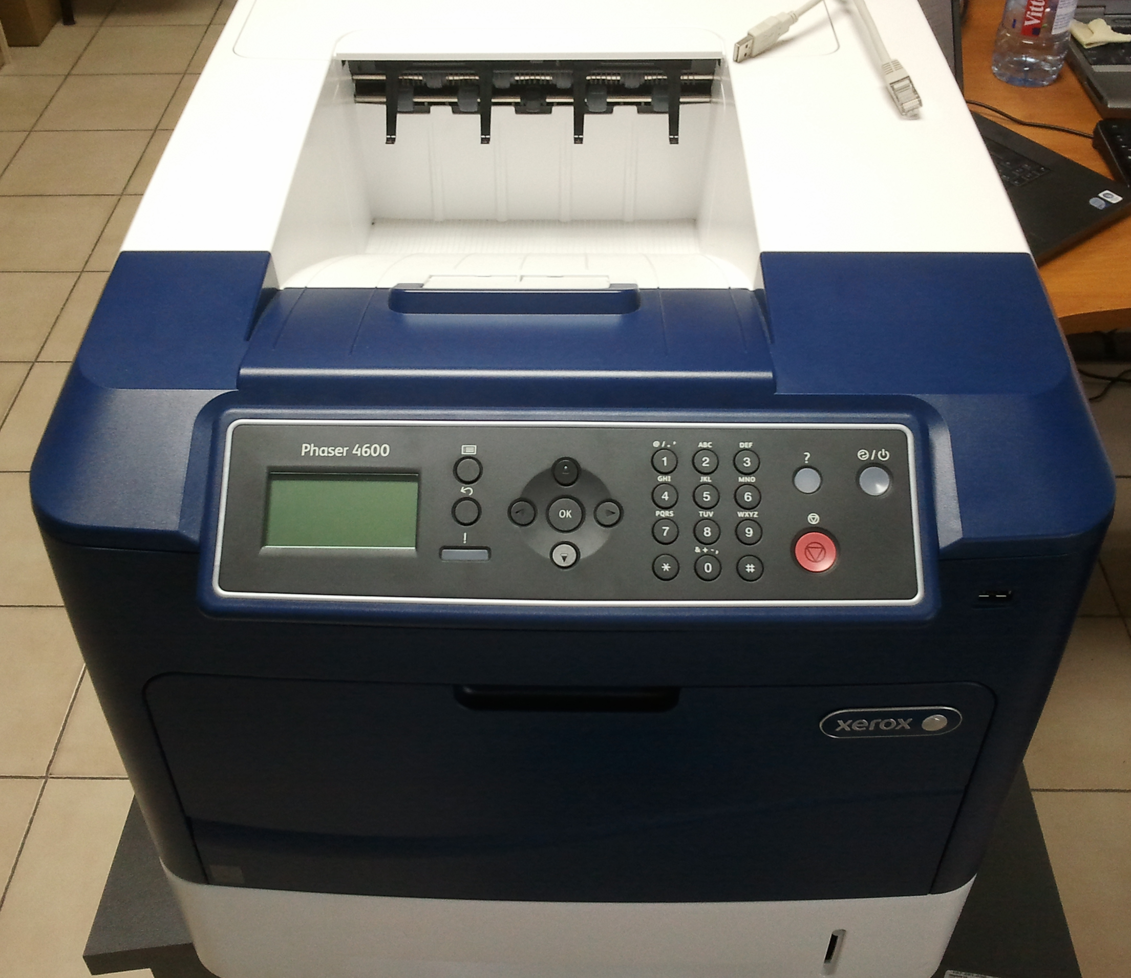 Xerox Phaser 4600 printer